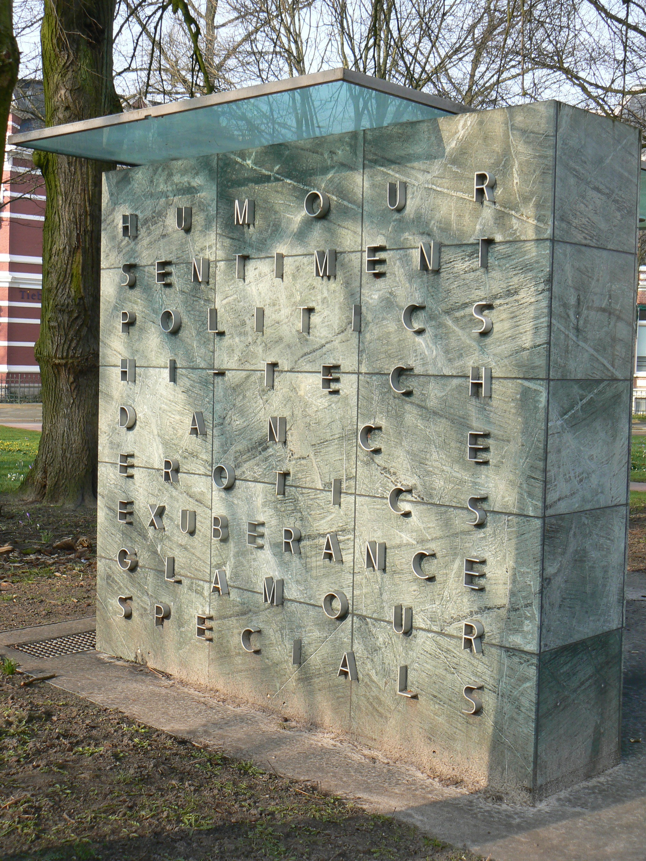 Folly (Video Bus Stop) by Rem Koolhaas (1990) in Groningen/The Netherlands